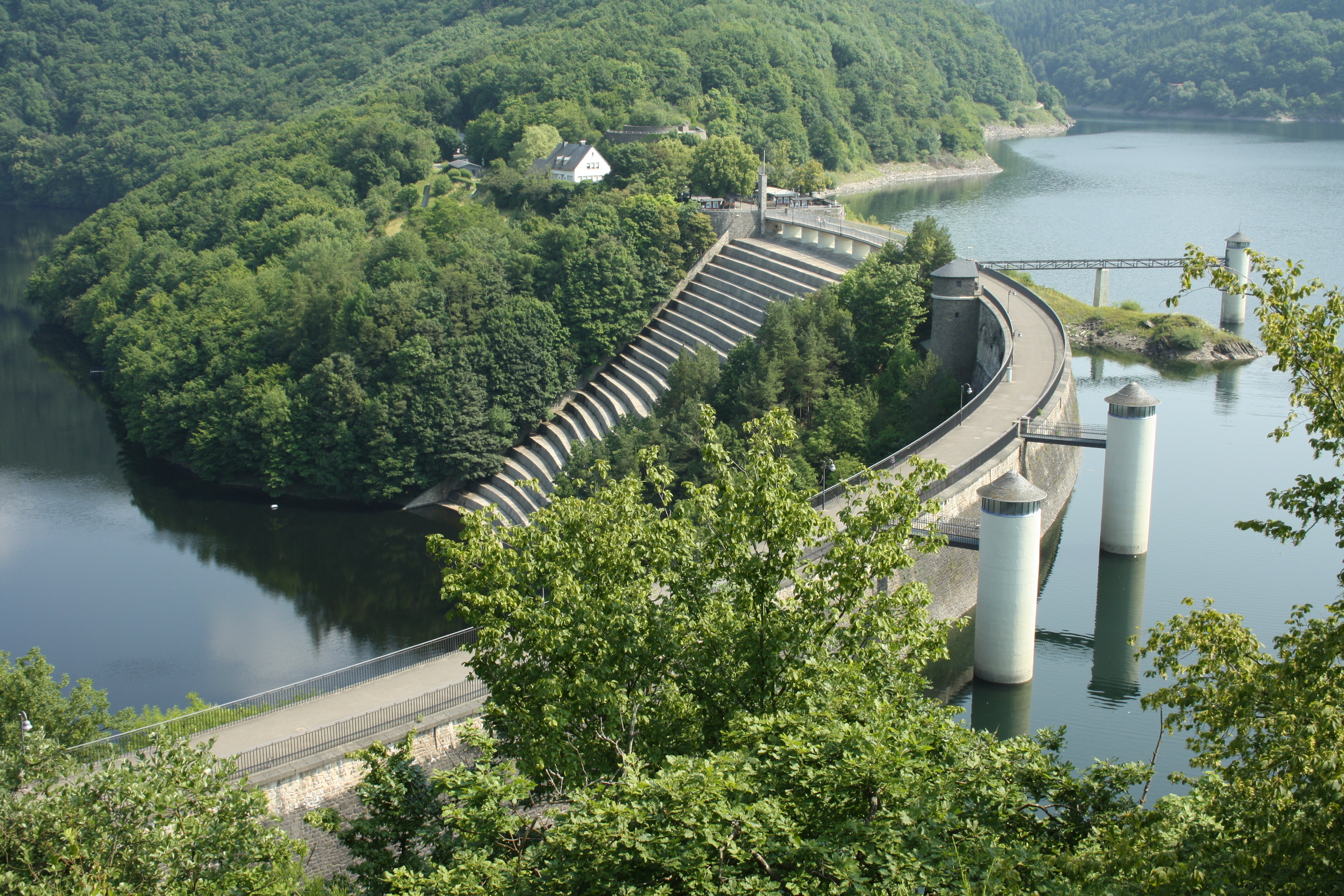 Urft Dam, seen from the southern Bank, Eifel National Park, Germany